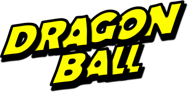 Dragon Ball logo. Created with Microsoft Office PowerPoint.